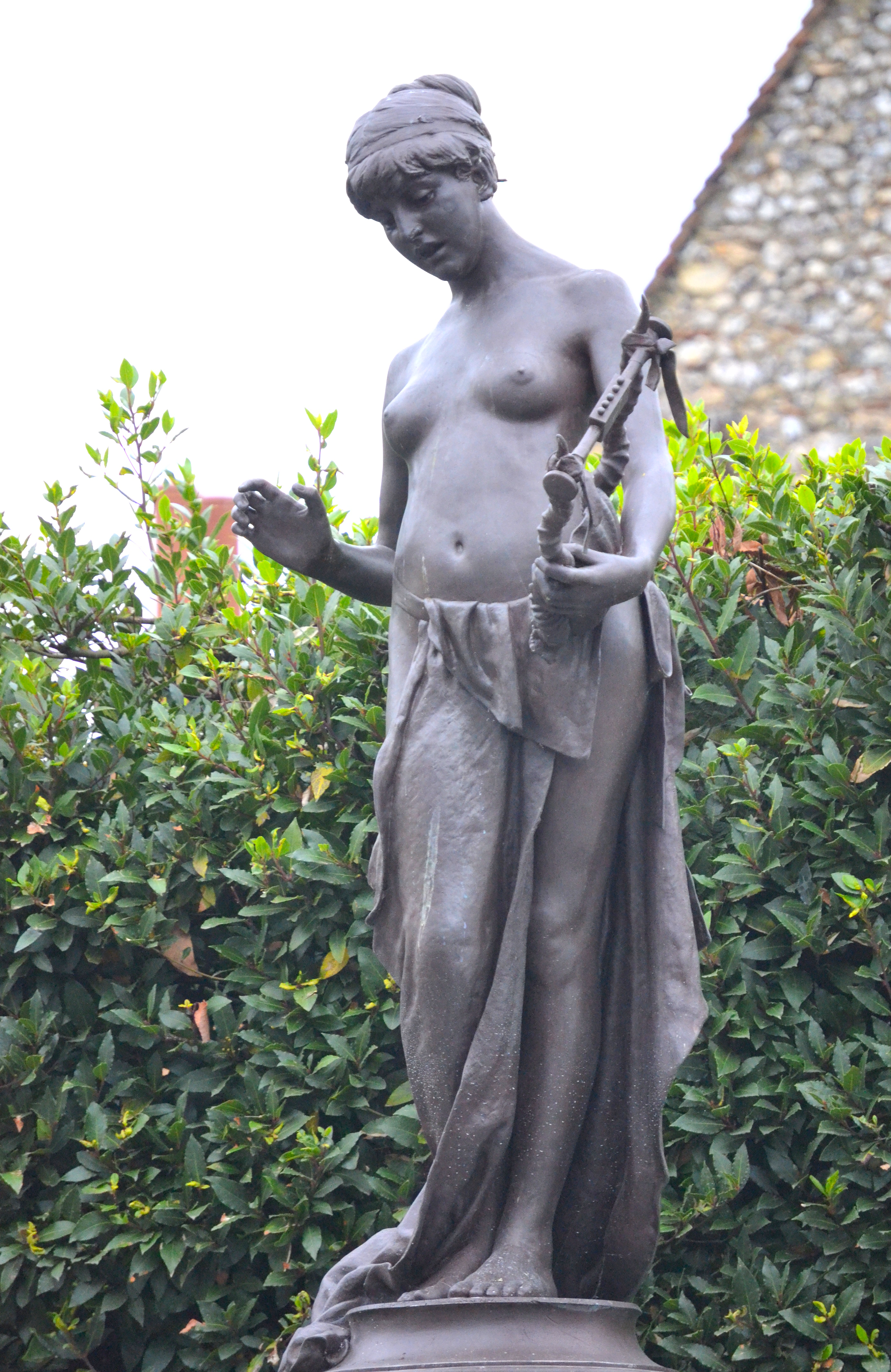 Edward Onslow Ford (1852-1901) - The Muse of Poetry (1891) front part left, Marlowe Memorial nr Marlowe Theatre, The Friars, Canterbury, UK, October 2012